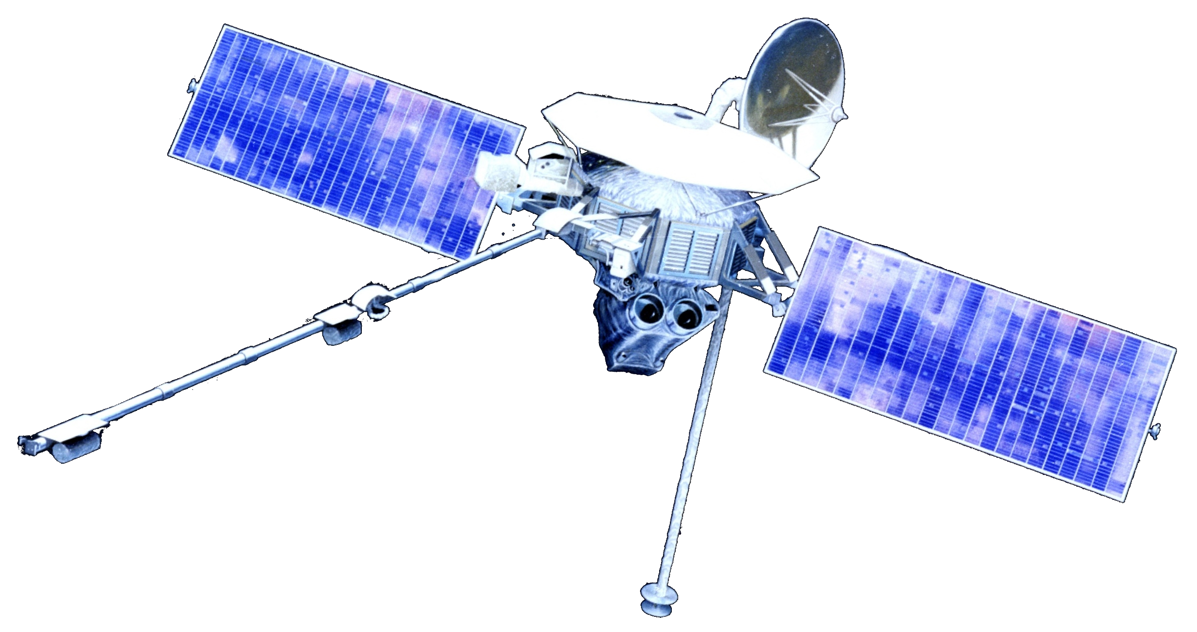 Transparent image of the Mariner 10 spacecraft.